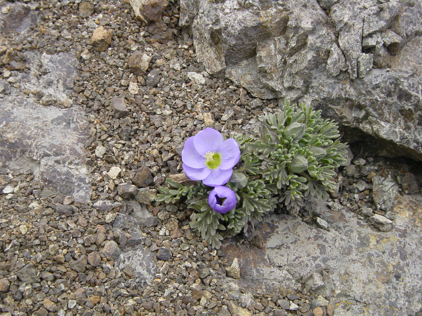 Flower of Ecuador, maybe Malvacea prostrata but not sure or Nototriche jamesonii a little bit more sure